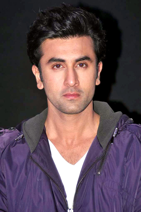 Ranbir Kapoor at the launch of 'Barfi!' promo